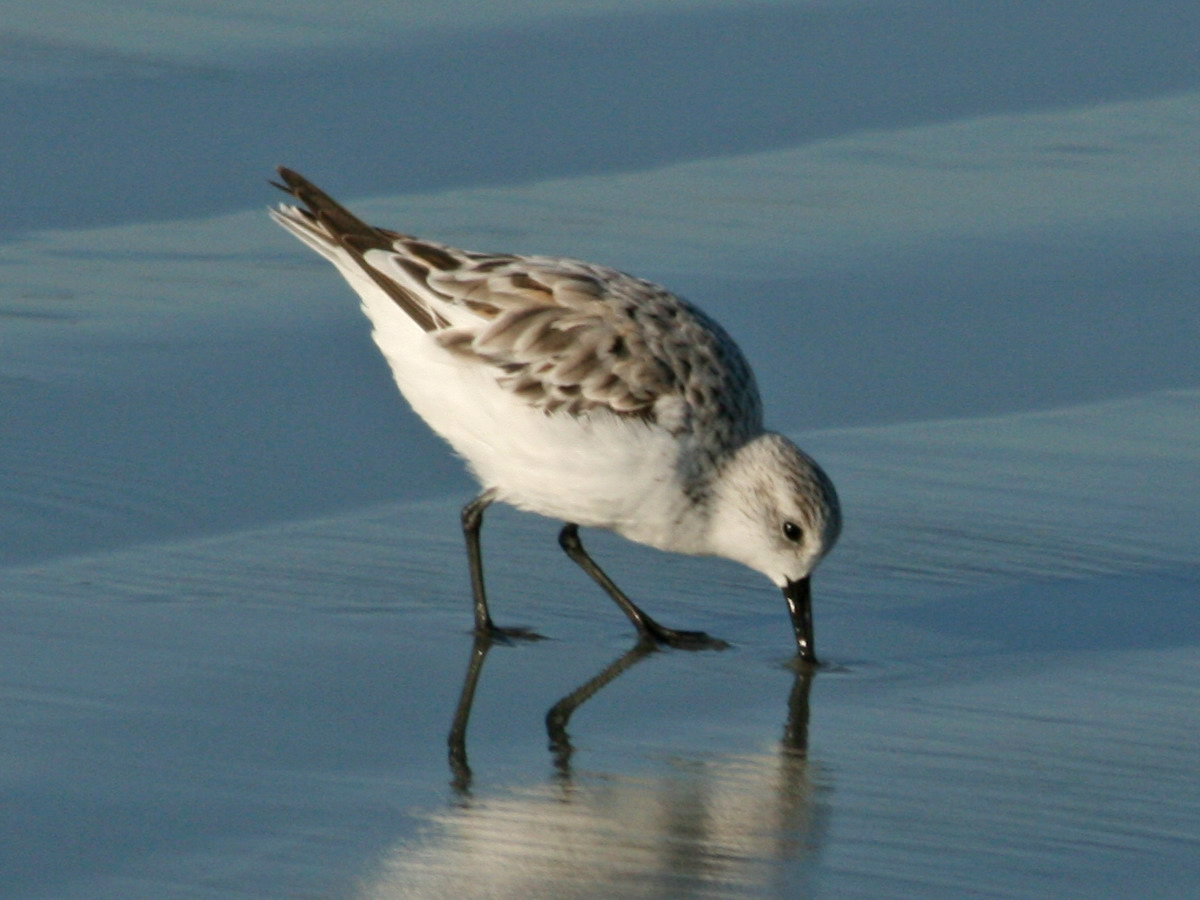 Sanderling (Calidris alba) at Sunset Beach, North Carolina